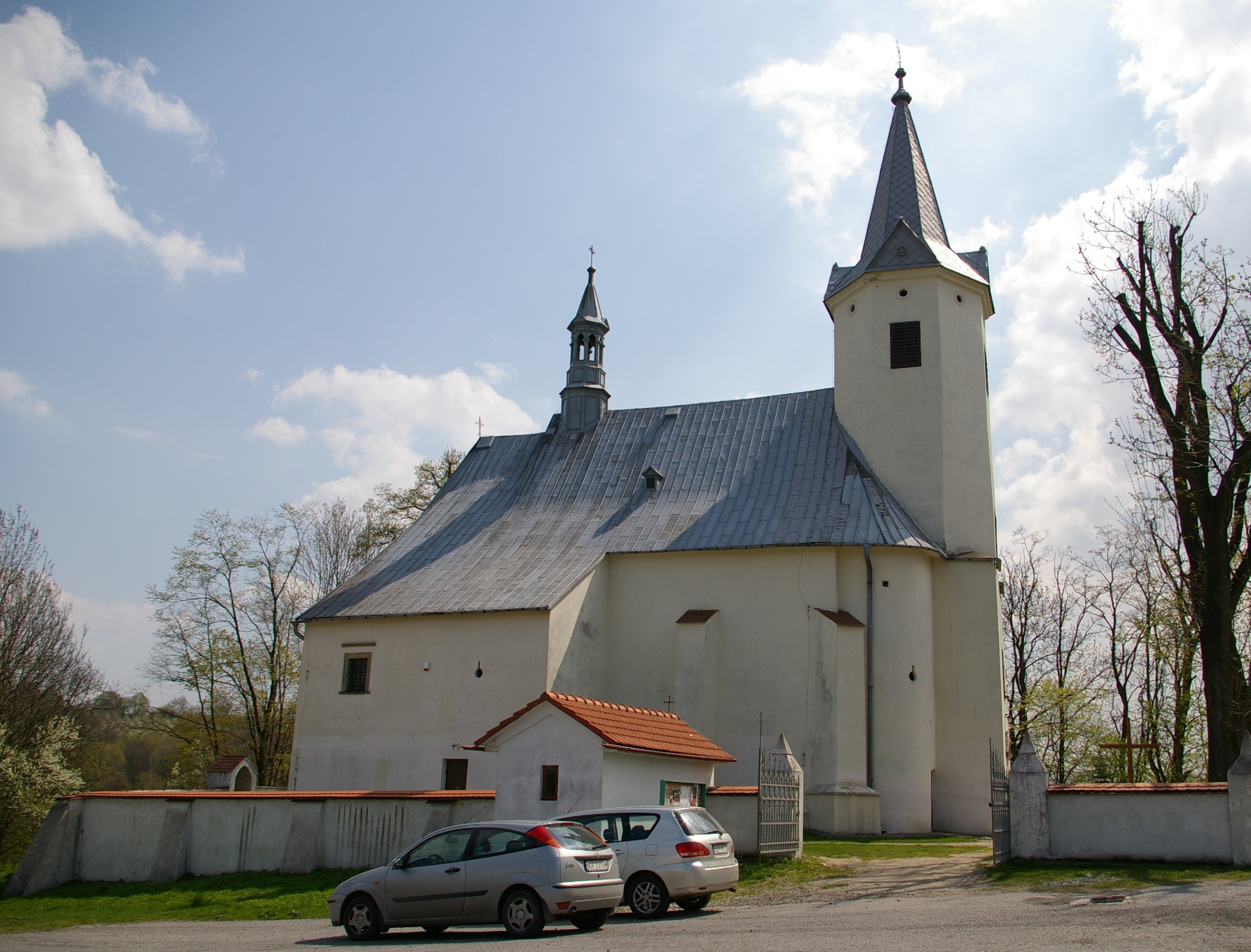 Parish church in Korzkiew, Poland